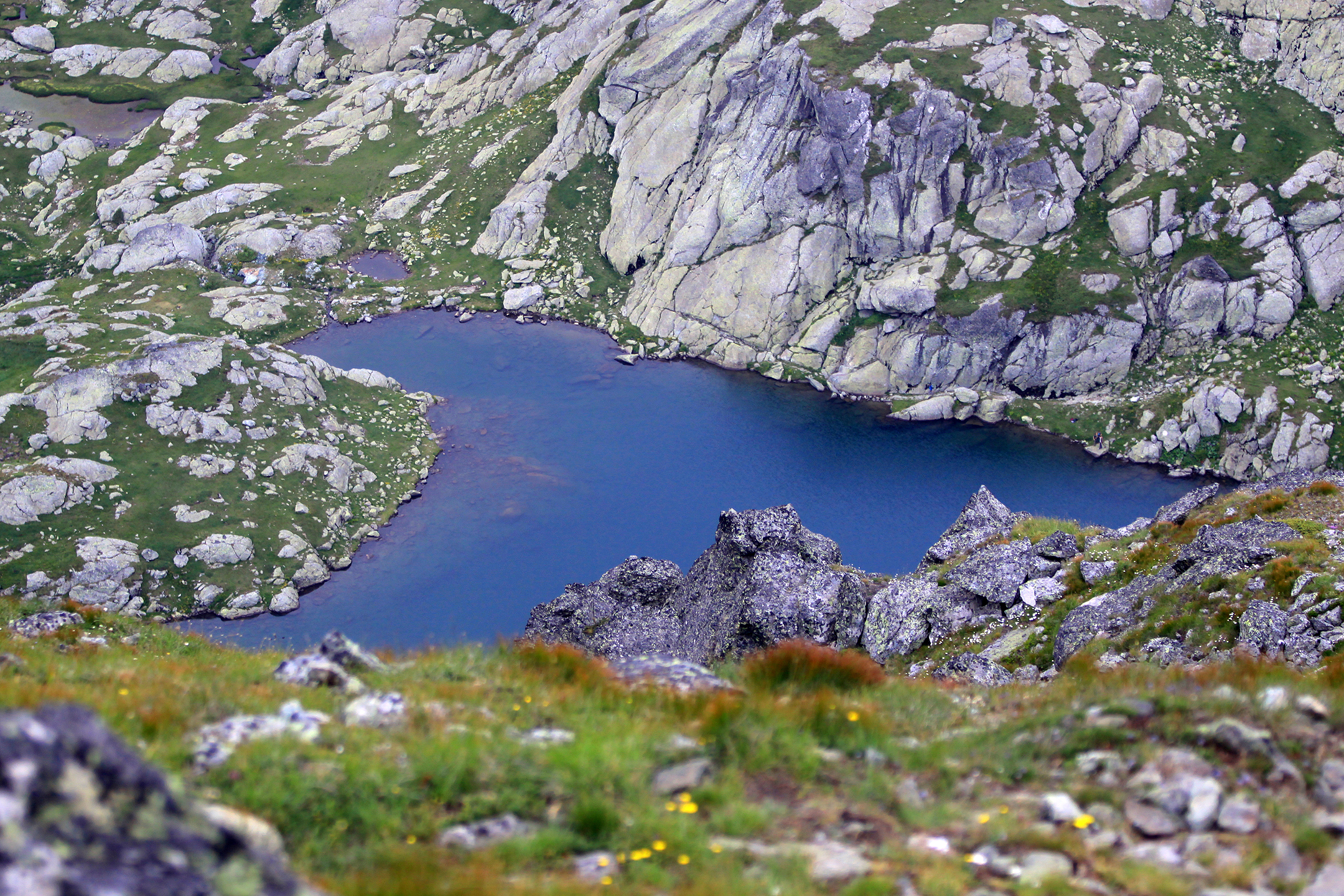 Zoomed Gjeravica mountains bigger lake from the summit above it